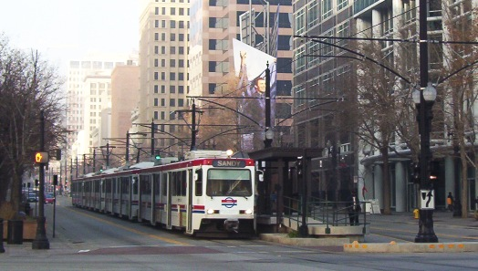 TRAX light rail train in downtown Salt Lake City, just west of Gallivan Plaza. Train headed toward Sandy, Utah. Taken by me 12-18.